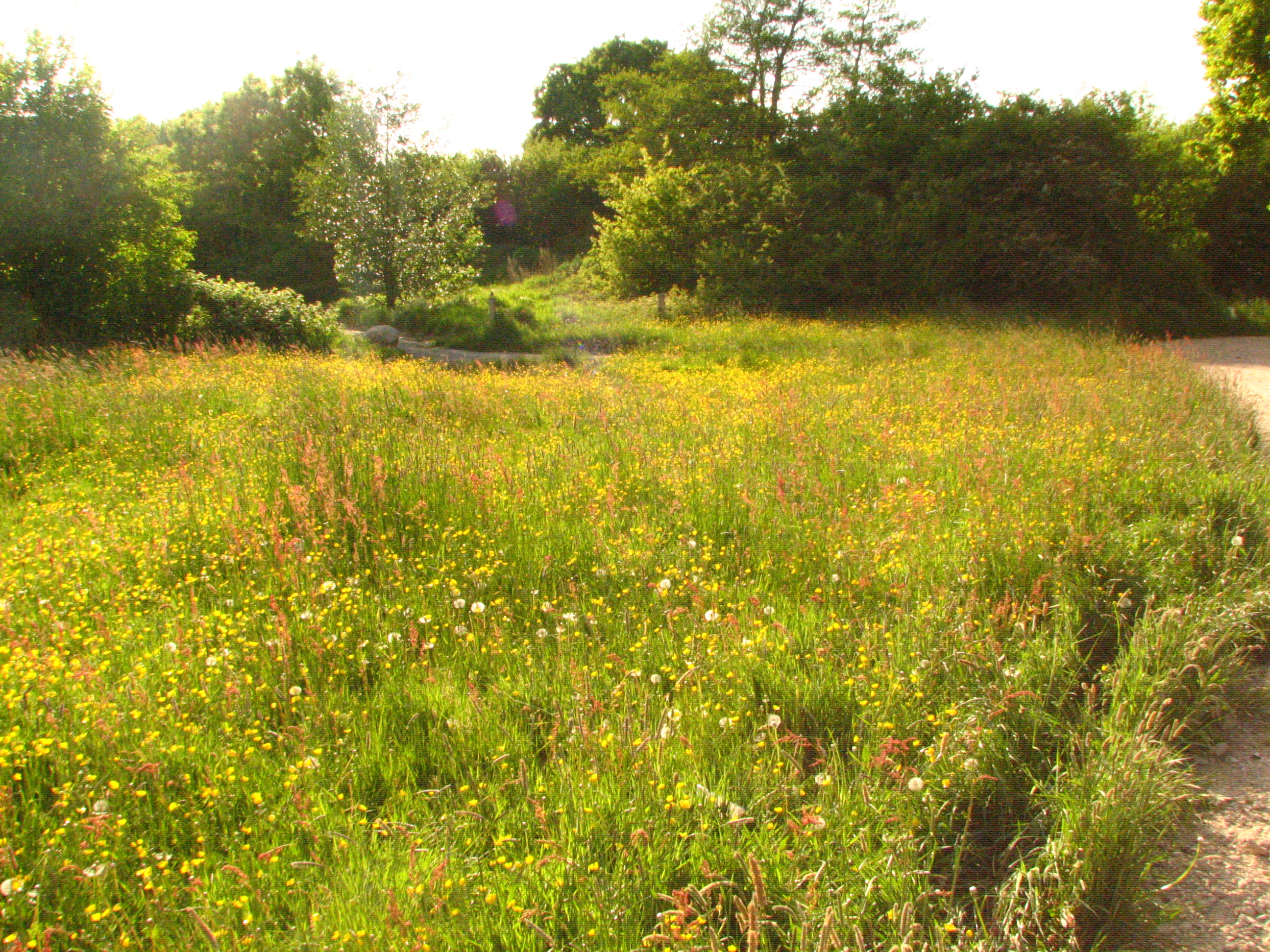 Wildflower meadow in Osbektal, near Flensburg, Germany